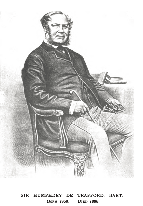 Portrait of Sir Humphrey de Trafford 1808 - 1886